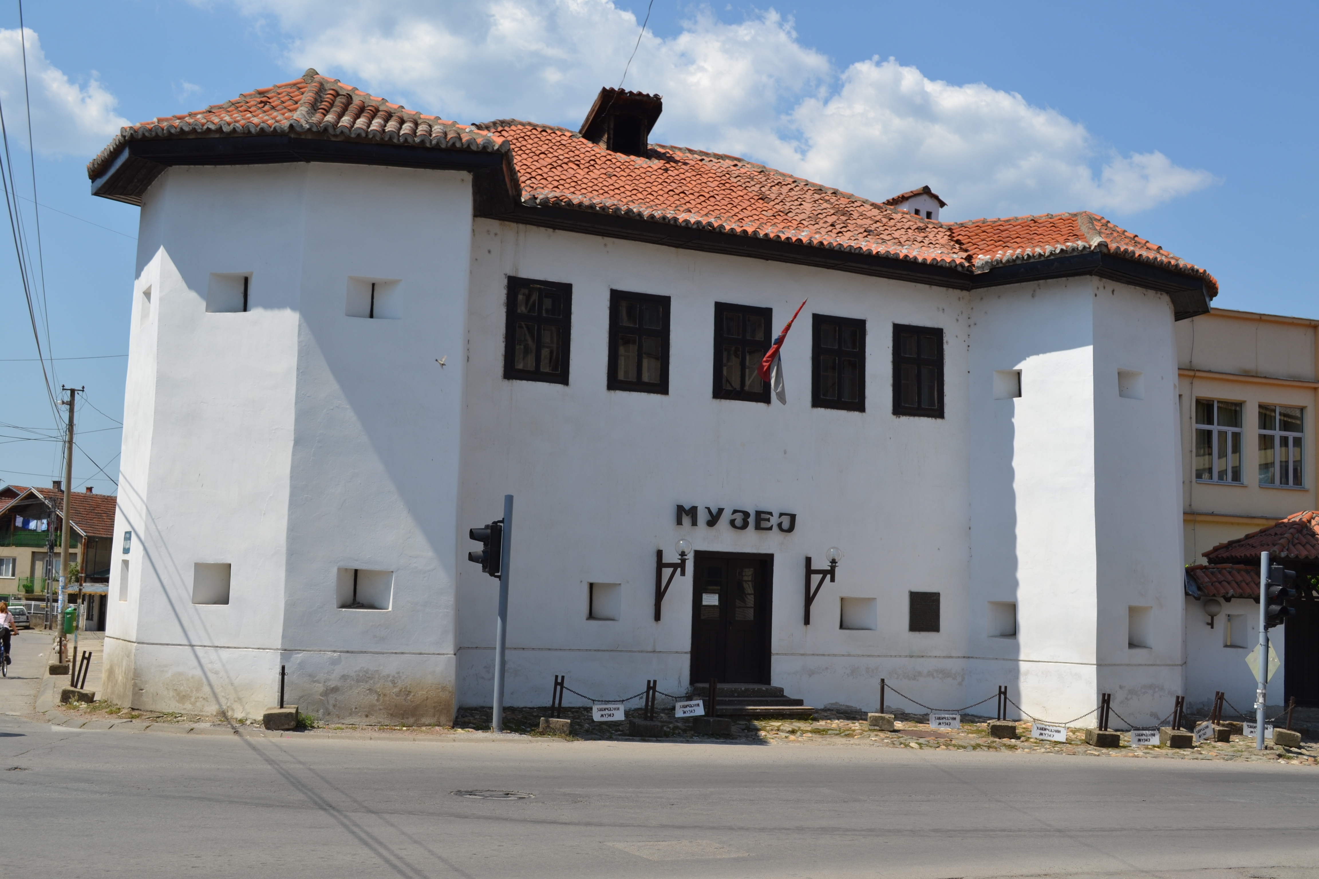 Завичајни музеј у Власотинцу